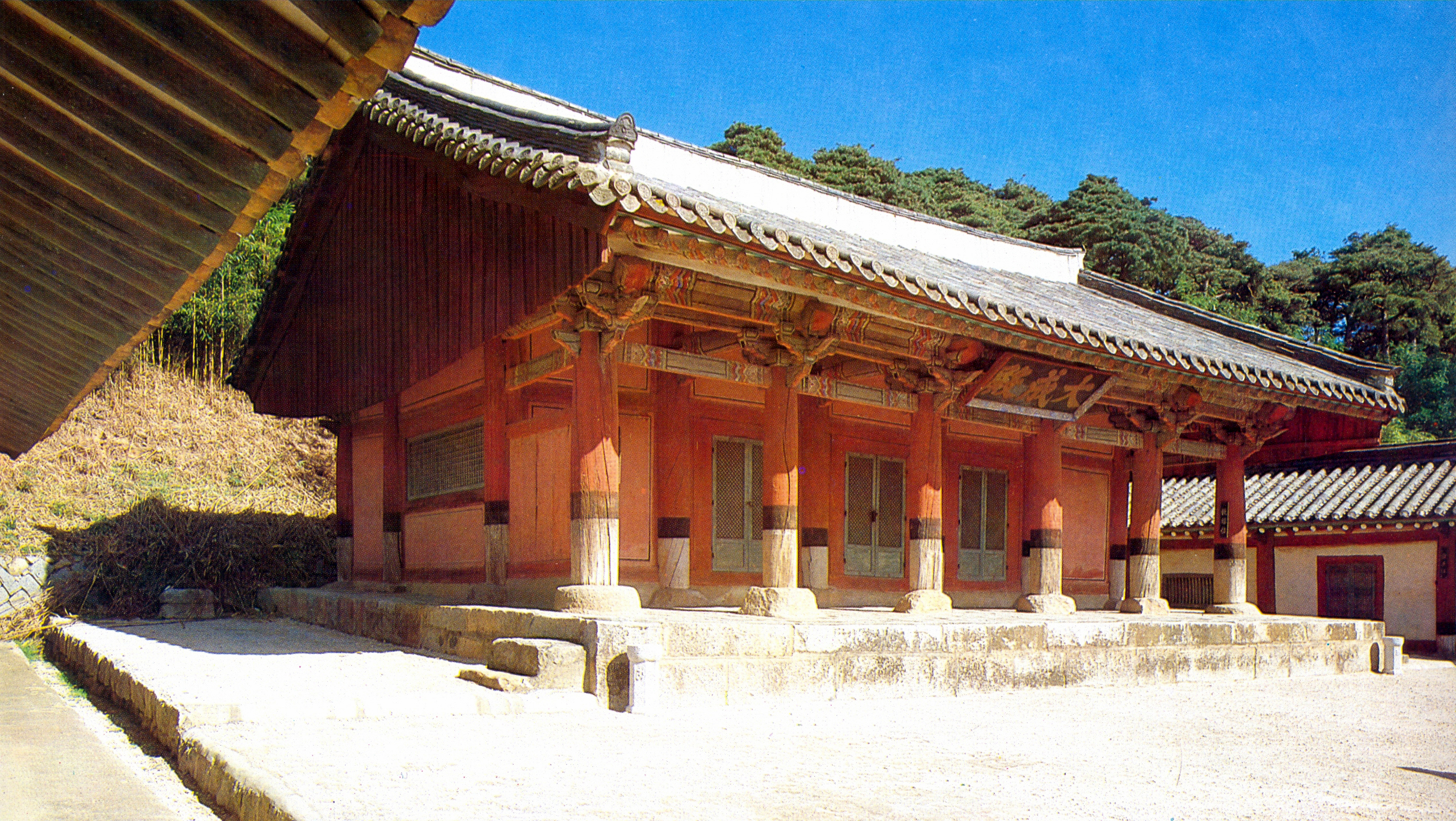 Daeseongjeon Shrine at Confucian School in Gangneung, Korea